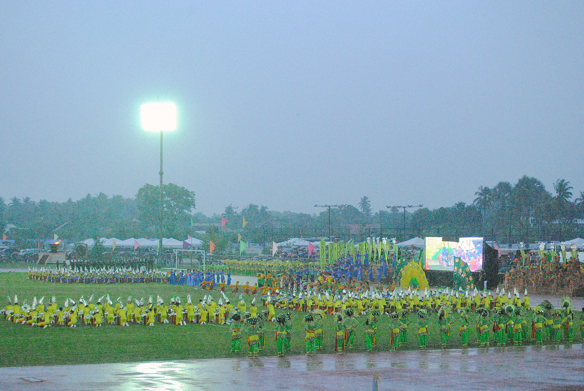 Selected students and teachers from the four Department of Education Divisions in the Province of Davao del Norte (Division of Tagum City, Division of Davao del Norte, Division of Panabo City, and Division of IGACOS/Samal Island) perform a mass field demonstration during the Opening Ceremony of the Palarong Pambansa 2015 in Tagum City, Davao del Norte.